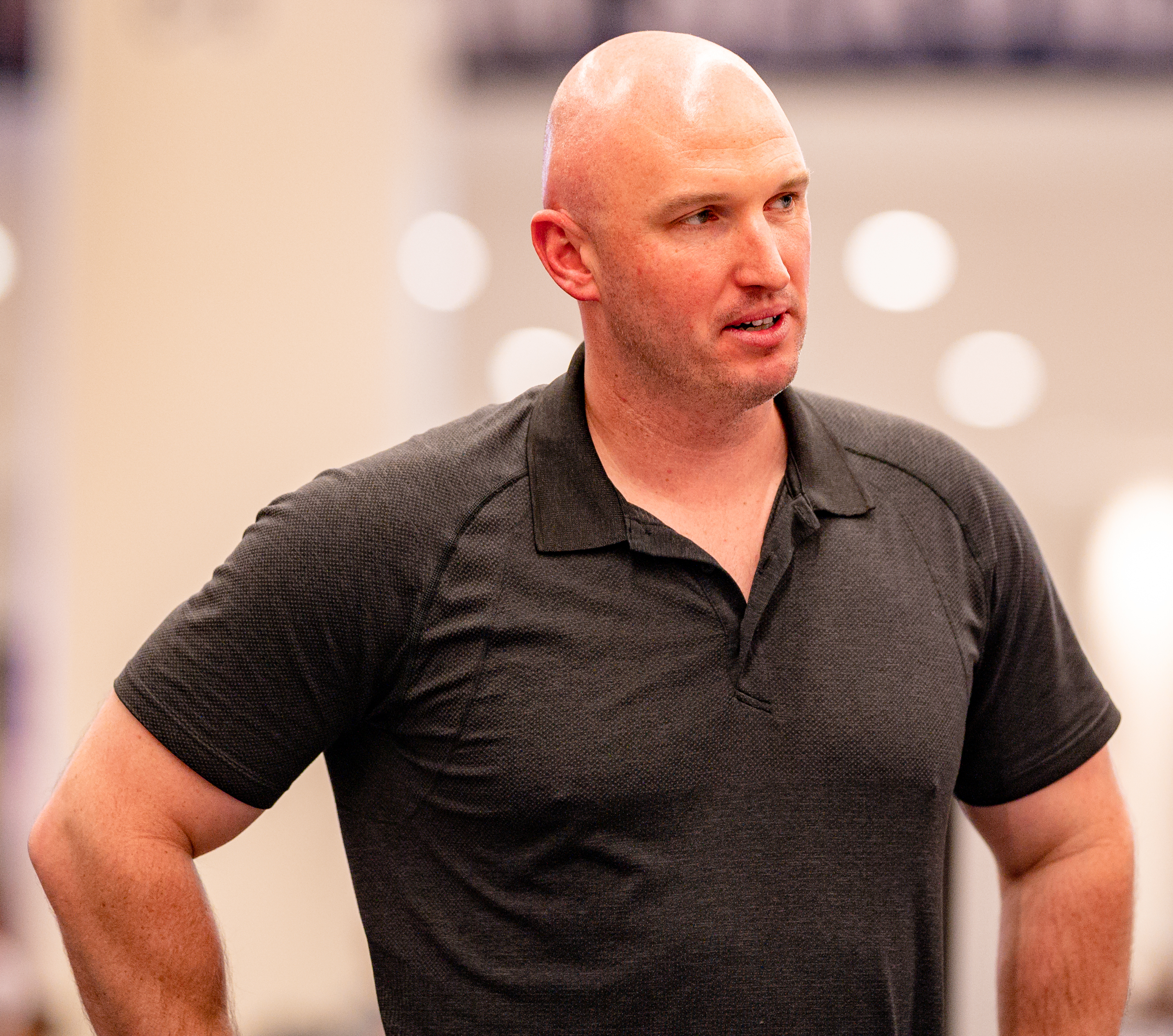 Jensen Lewis (left) and Bobby Bradley at Cleveland Indians Tribe Fest at Huntington Convention Center of Cleveland in February 2020.